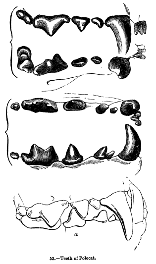 Dentition of the European polecat